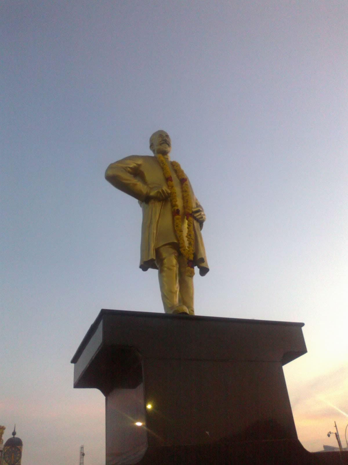 Statue of 'Sivaji' Ganesan, the legendary actor, in the marina beach road, Chennai